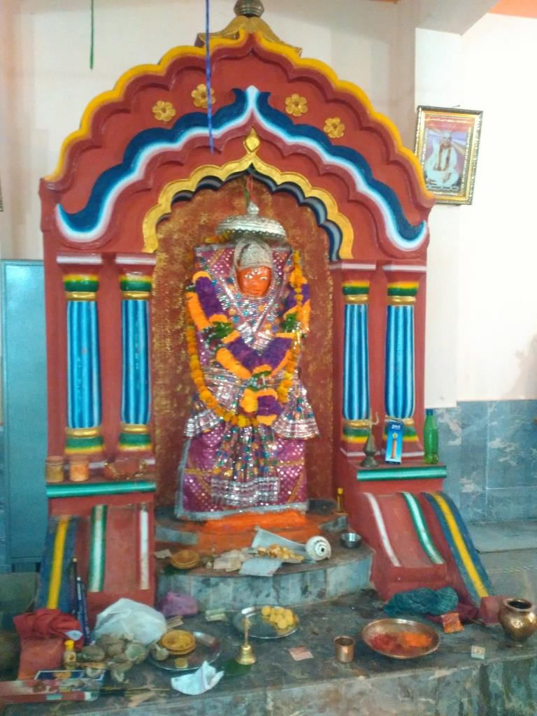 This is a temple of Lord Hanumaan situated behind Higher Seconder School.